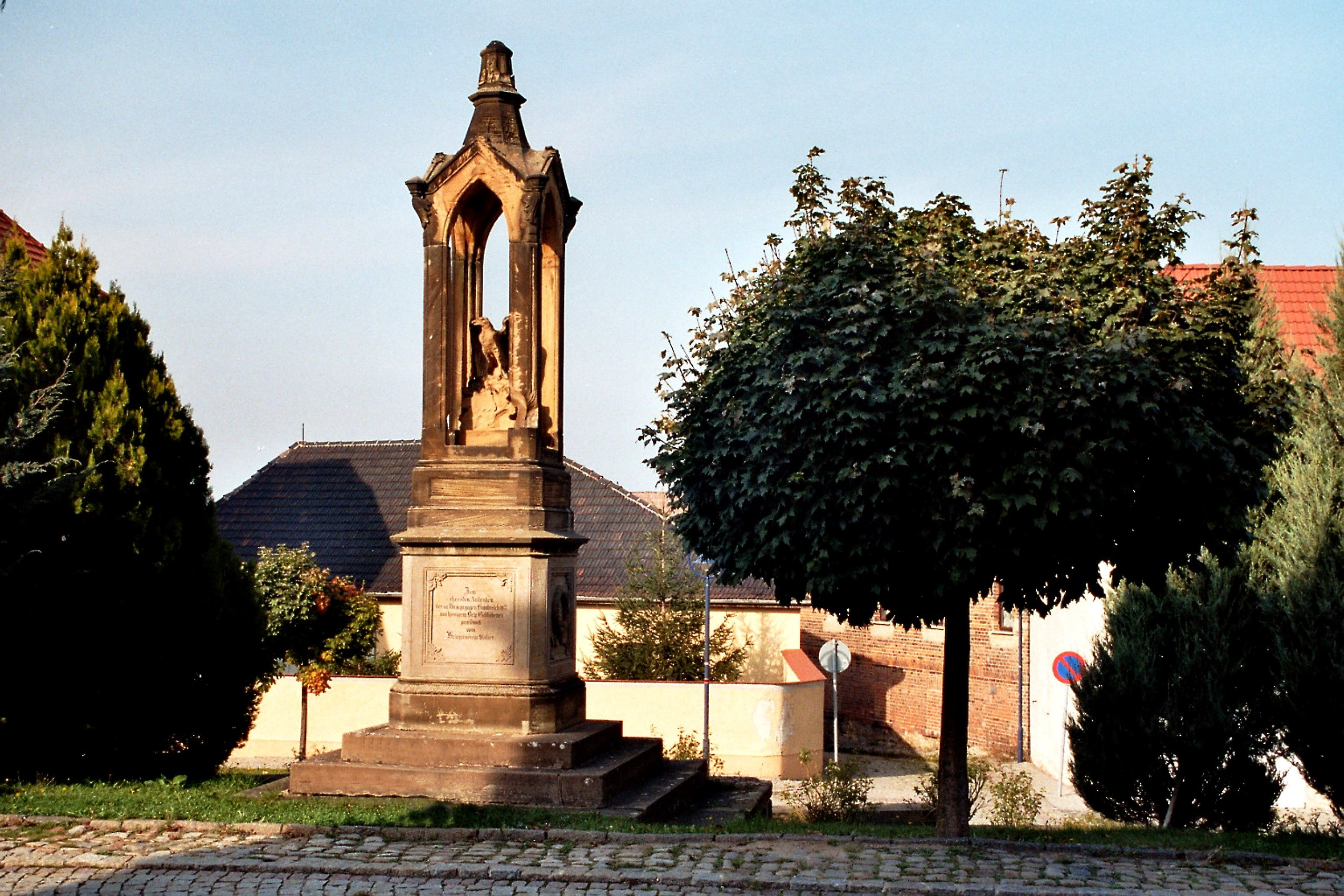 Stößen, the war memorial